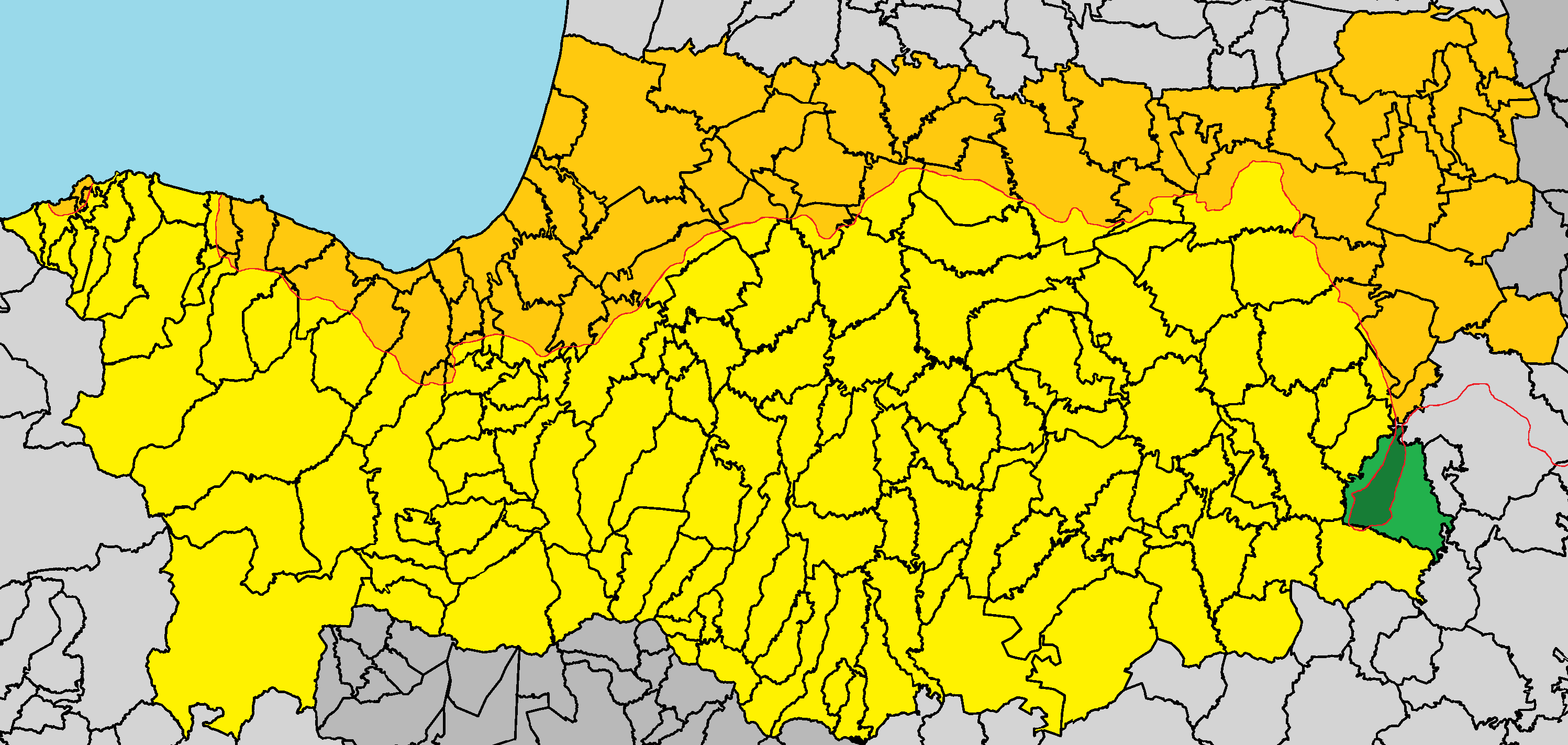 Louroujina in Nicosia District (de jure).